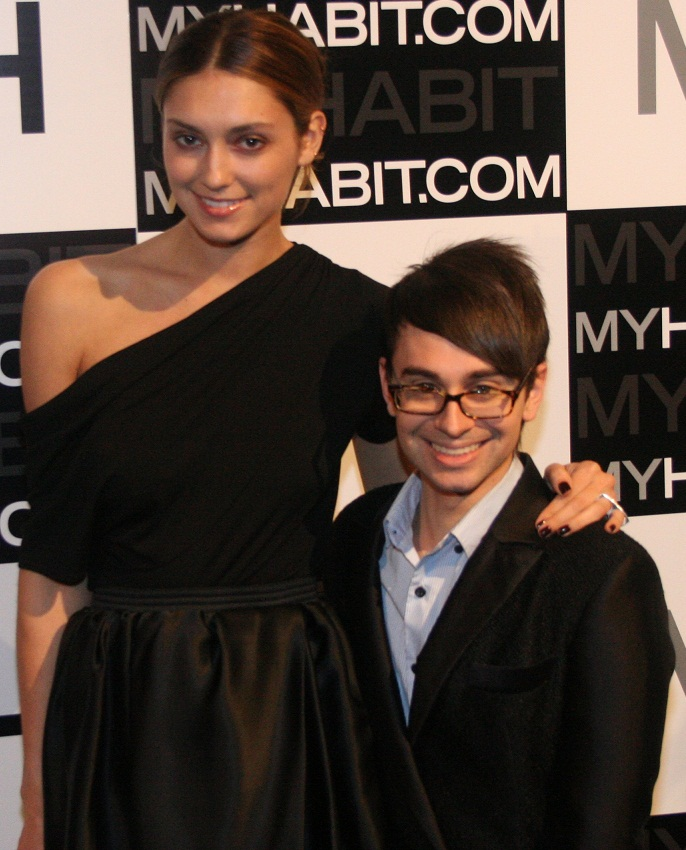 Christian Siriano and Anna Schilling at the My Habit launch at Skylight West Studios on May 18, 2011